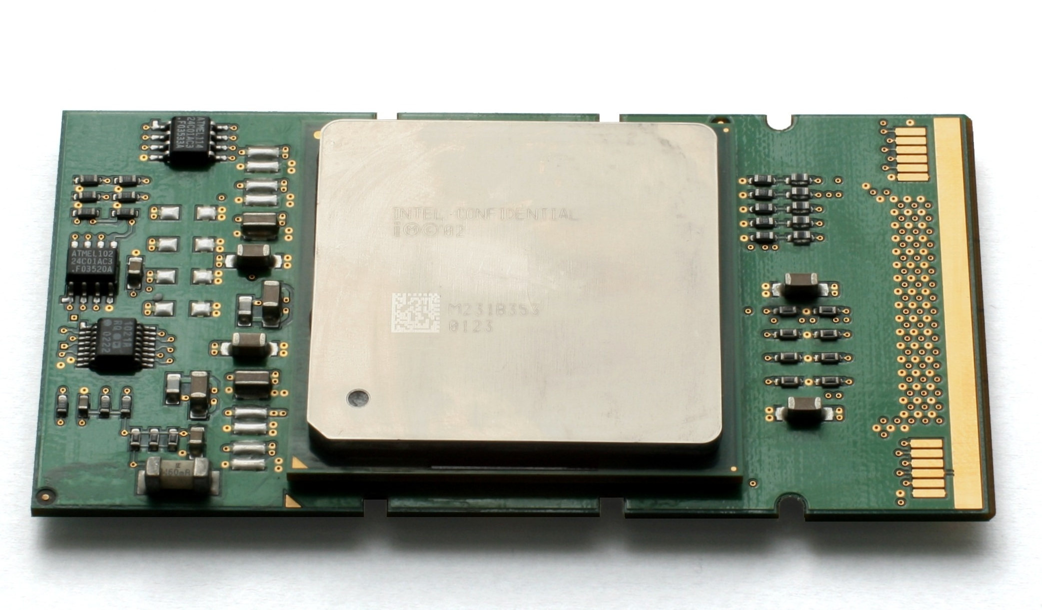 CPU Intel Itanium 2 Confidential